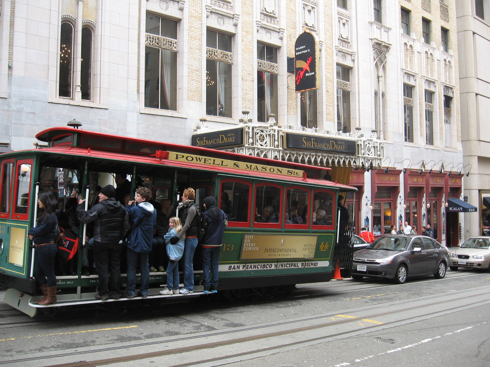 Sir Frances Drake Hotel